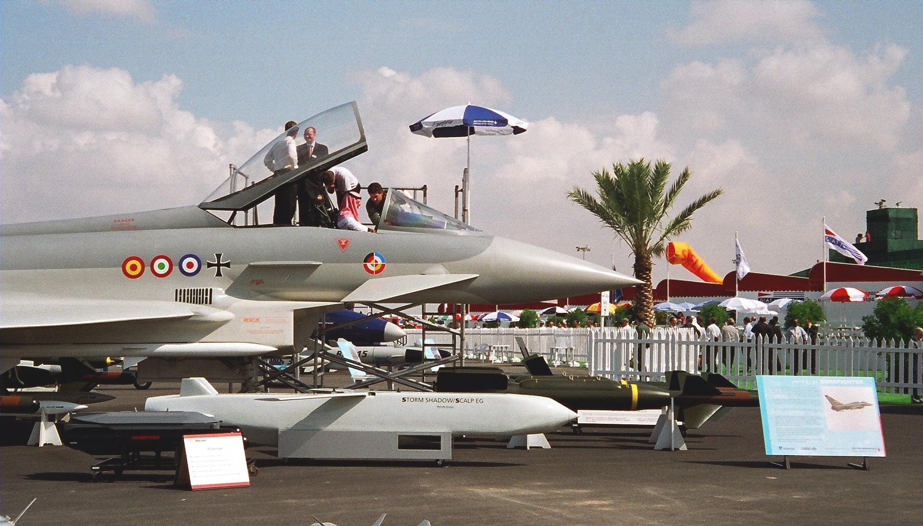 Eurofighter Typhoon prototype on display at Dubai Air Show 1998. Note the multiple roundels for the air forces: (left to right) Spanish Ejército del Aire, Italian Aeronautica Militare, British Royal Air Force, and German Luftwaffe.